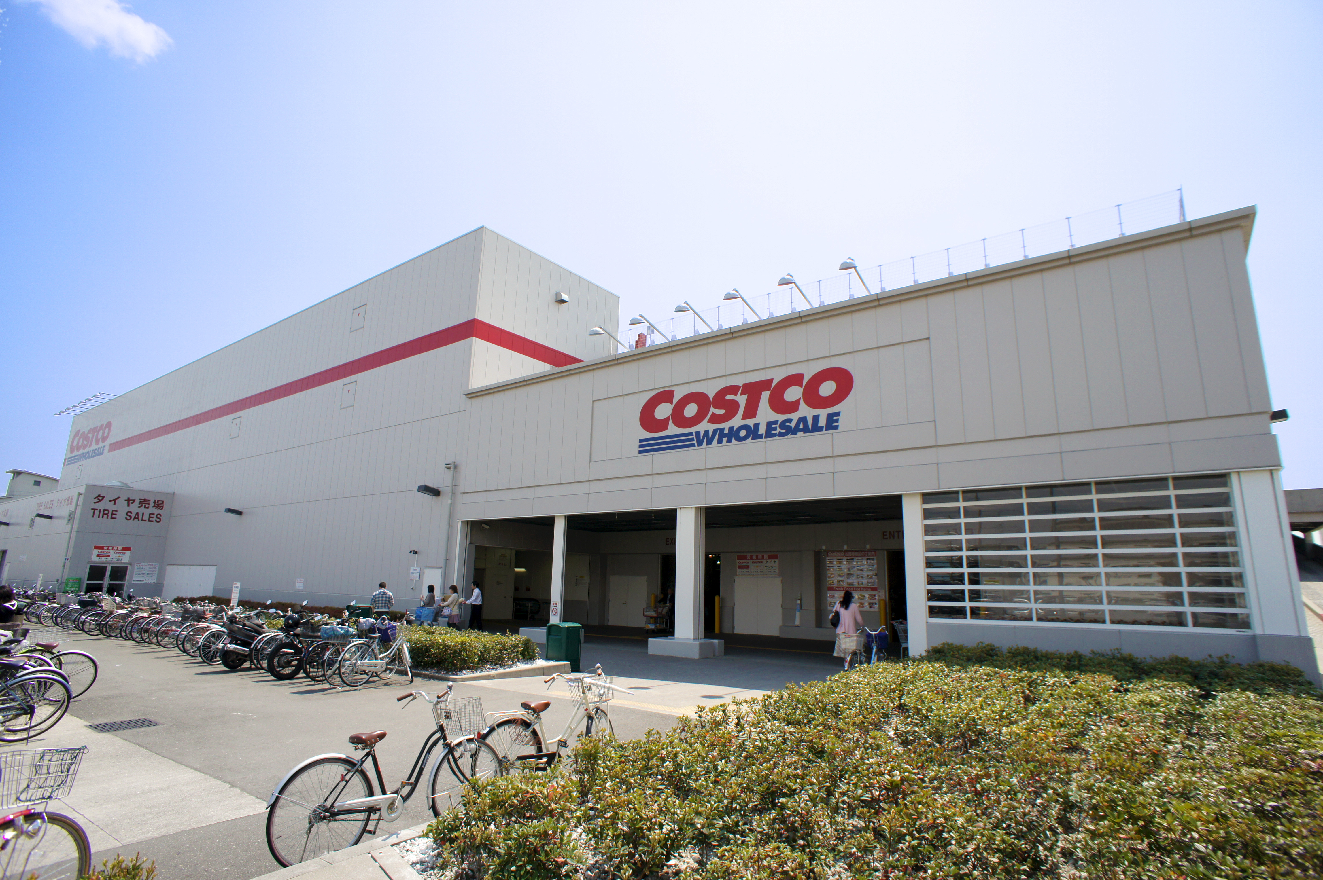 COSTCO Amagasaki, 3-13-55 Tsugiya Amagasaki-City Hyogo Japan.